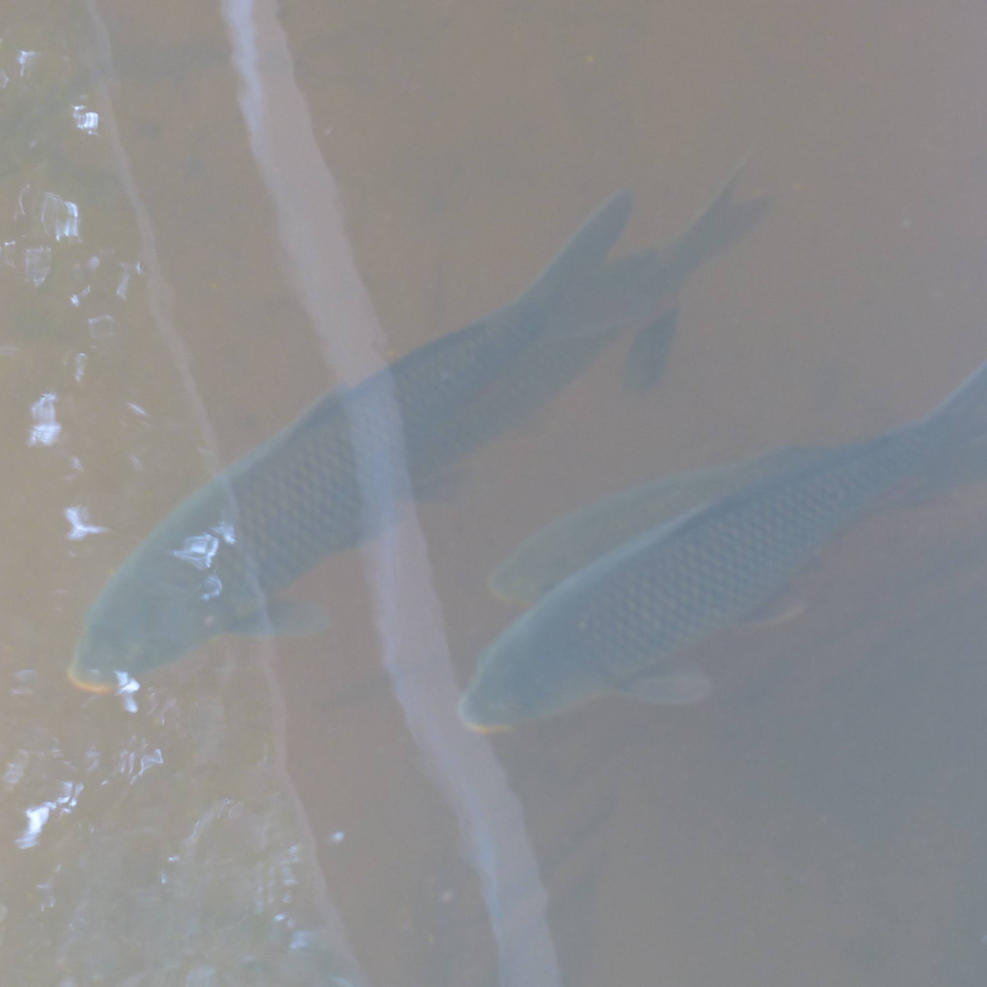 Healthy, live, and swimming grass carp as seen from above.